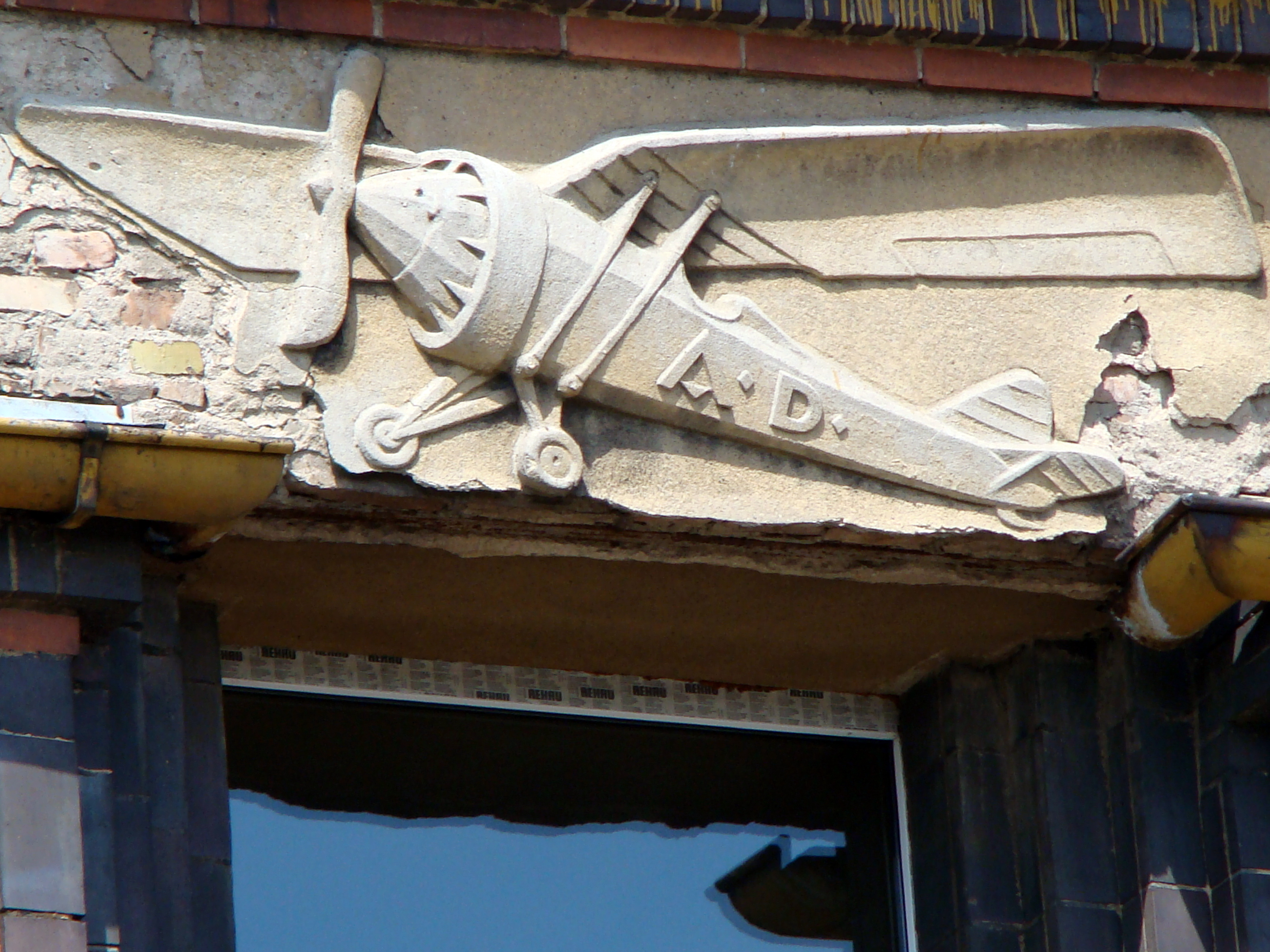 A relief on a building in Poznań, Grunwaldzka 41a street. An aircraft might be a rendition of the 3rd prototype of PZL P.11, with a tail more similar to PZL P.7